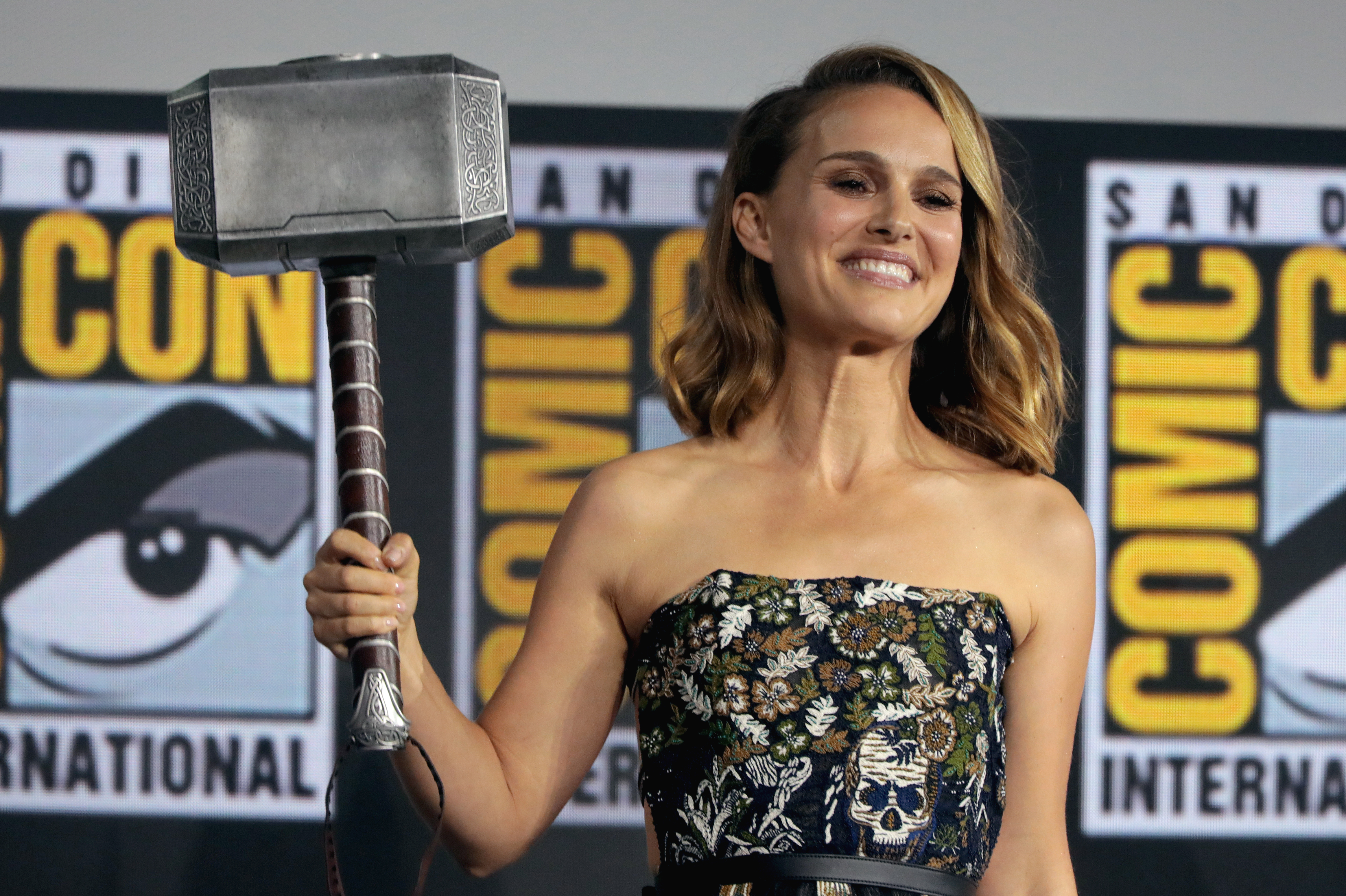 Natalie Portman speaking at the 2019 San Diego Comic Con International, for "Thor: Love and Thunder", at the San Diego Convention Center in San Diego, California.